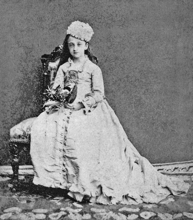 Nazime Sultan, daughter of Abdulaziz by Kargopoulo in 1876.